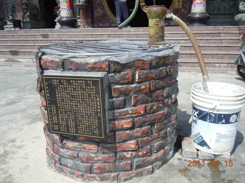 The well in Renhou Temple, Madou District, Tainan.